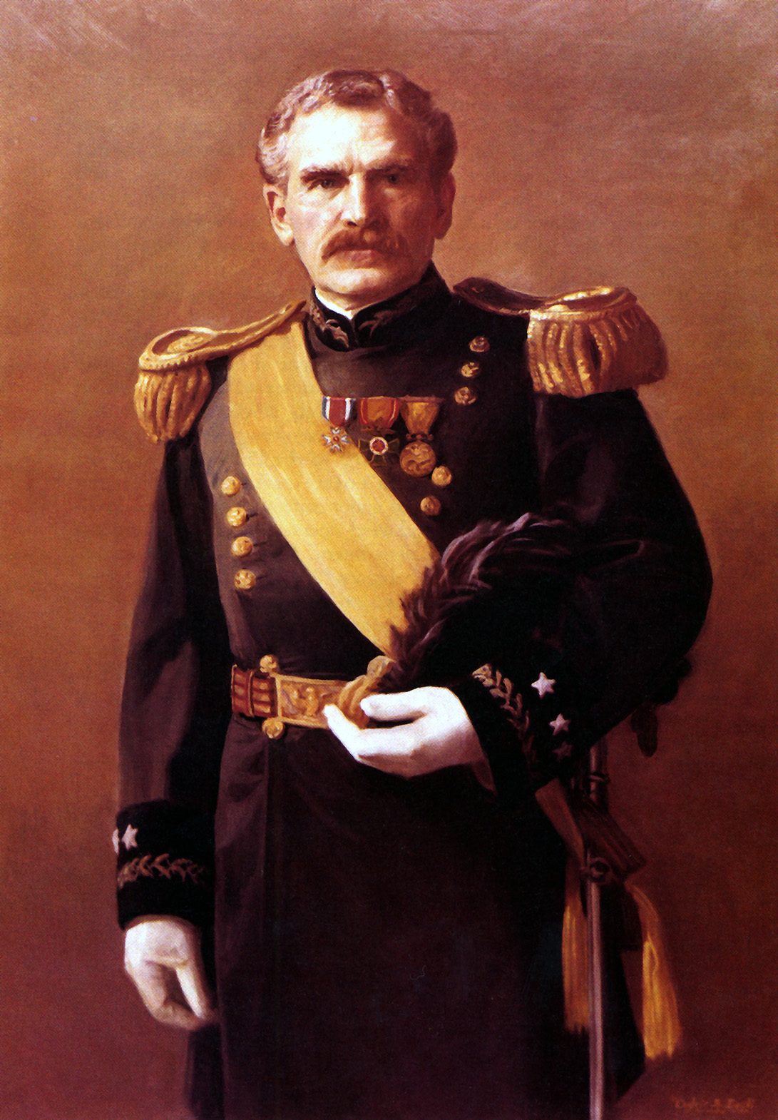 Adna R. Chaffee, 2nd Chief of Staff of the Army. Cedric Baldwin Egeli (1936- ) was born in Shady Side, Maryland. He attended Principia College in Illinois before enrolling for two years of study at the Corcoran School of Art in Washington, D.C. A scholarship took him to the Art Students League in New York City for three years of work under Sidney Dickerson, Frank Reilly, and Frank Mason. He was artist-in-residence at the University of Delaware in 1964-1965 before continuing his studies under his accomplished father, Bjorn Egeli, also a contributor to the Chiefs of Staff Portrait Gallery at the Pentagon, Washington, D.C. The portrait of Lt. Gen. Adna R. Chaffee was developed from a black and white photograph, and is reproduced from the Army Art Collection.